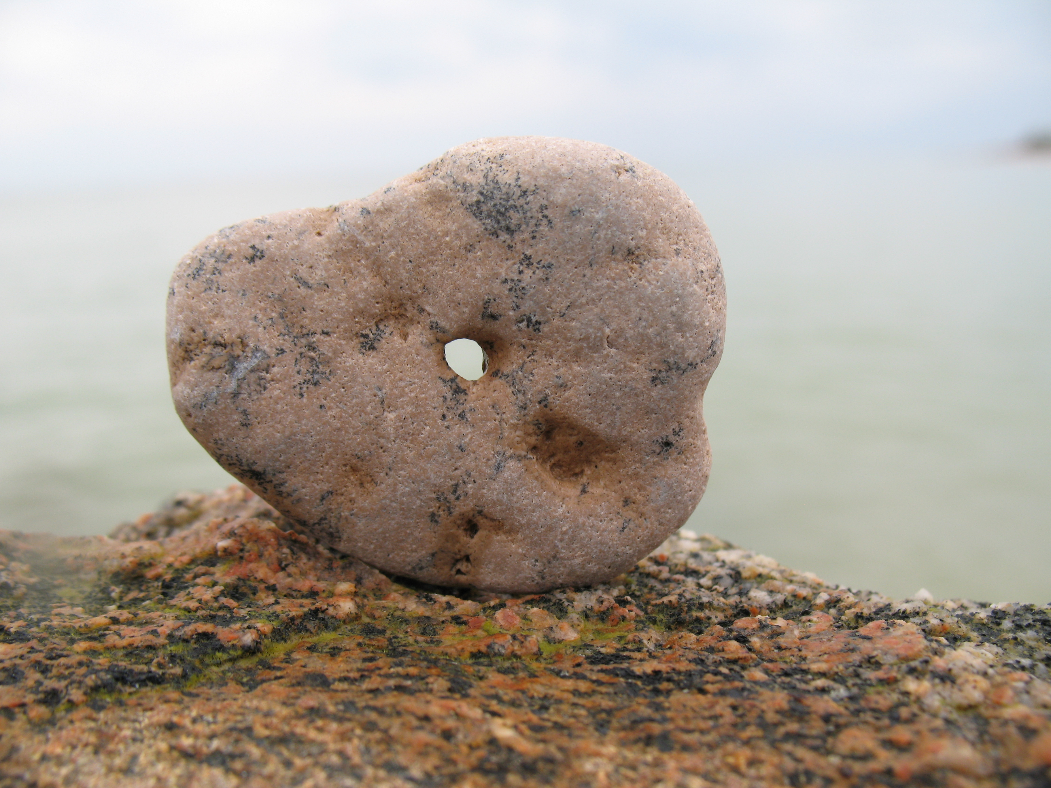 Stone with a hole (hagstone)